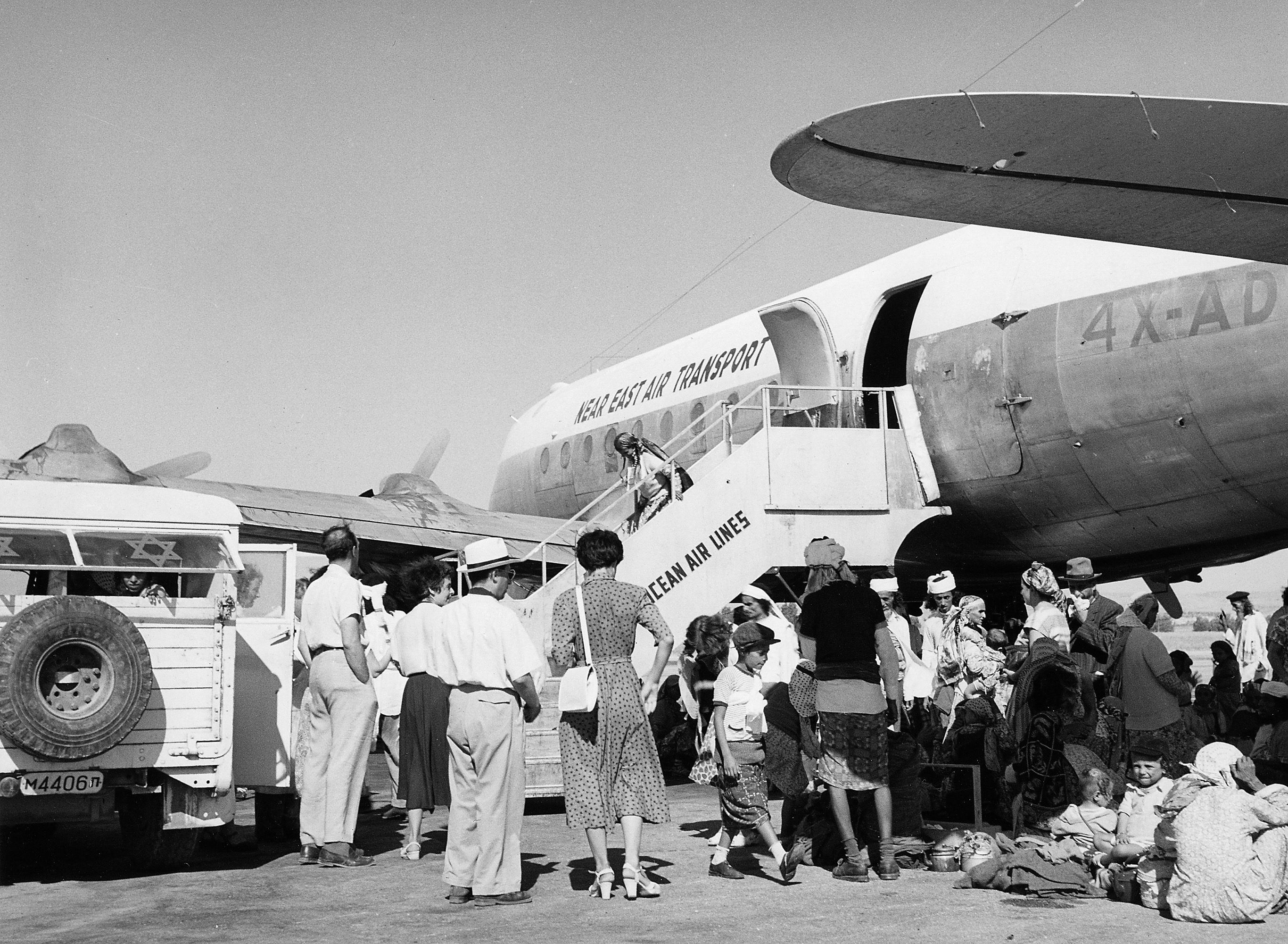 4X-ADN, DC-4 of Near East Air Transport on Airlift of Habbanim Jews from the South Arabian Peninsula, Operation Magic Carpet.